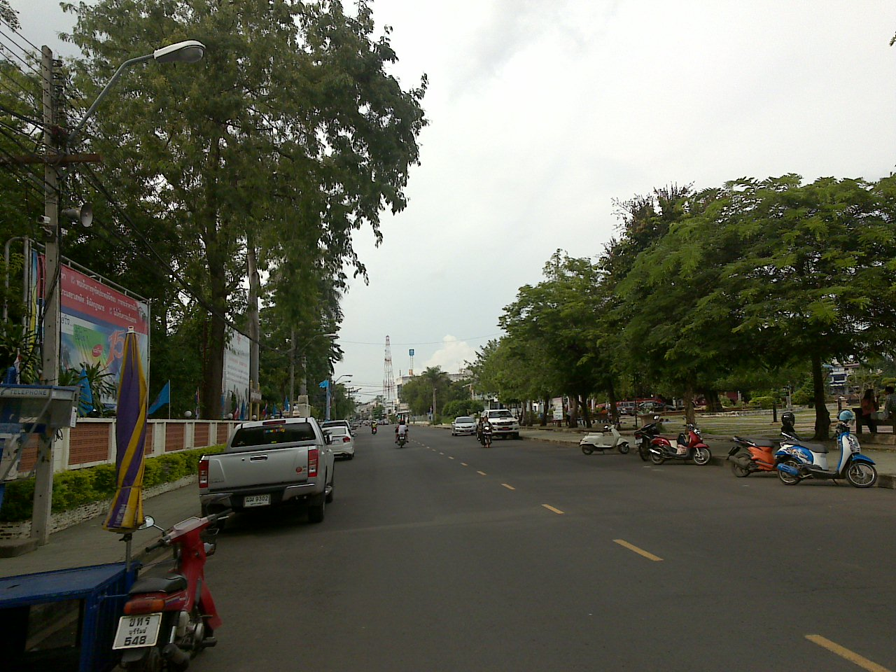 Romburi, downtown of Buriram